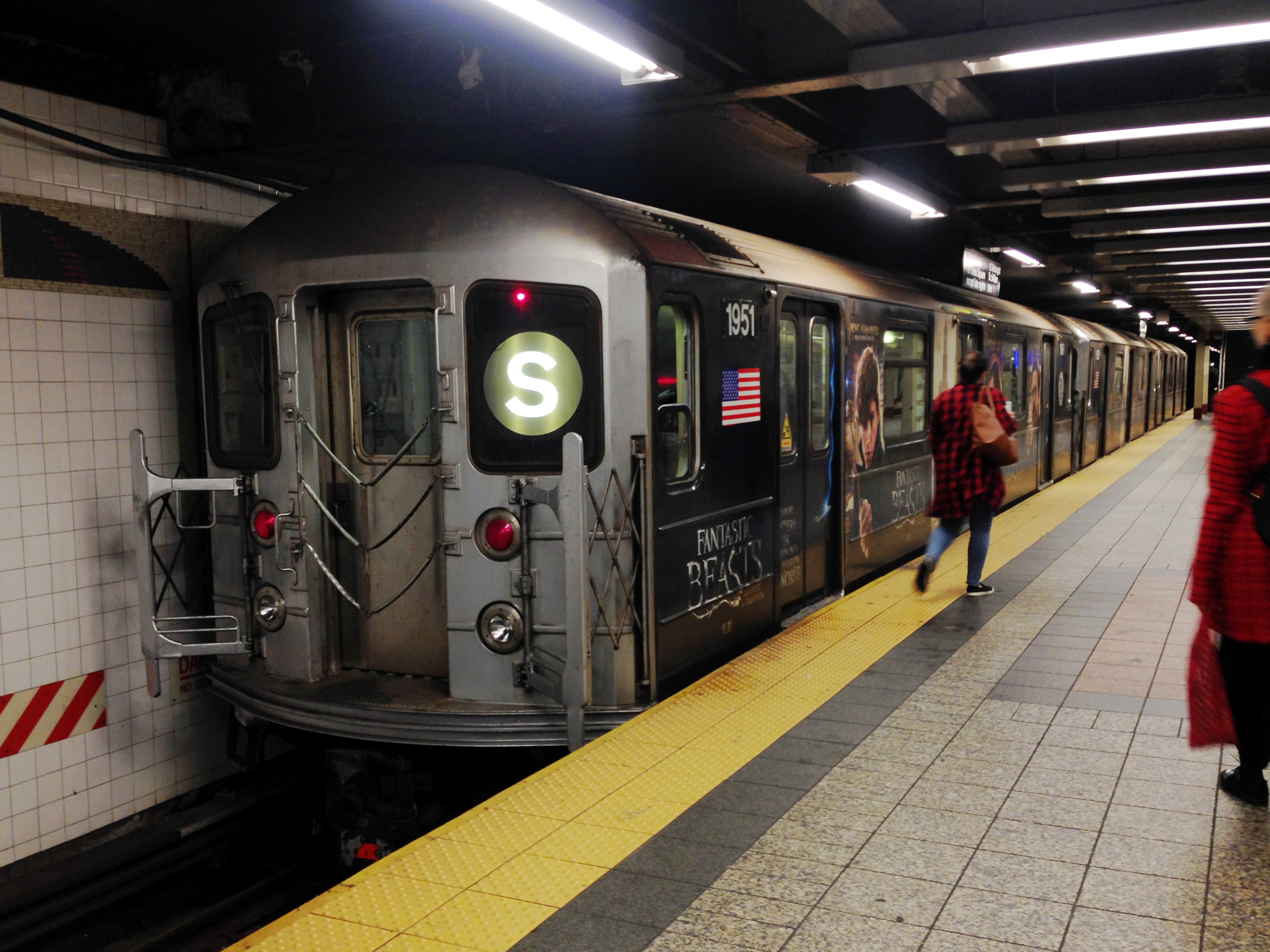 An ad-wrapped train of three cars on the 42nd Street Shuttle